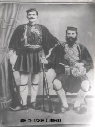 Thomas Karatzias, Pavlos Perdikas